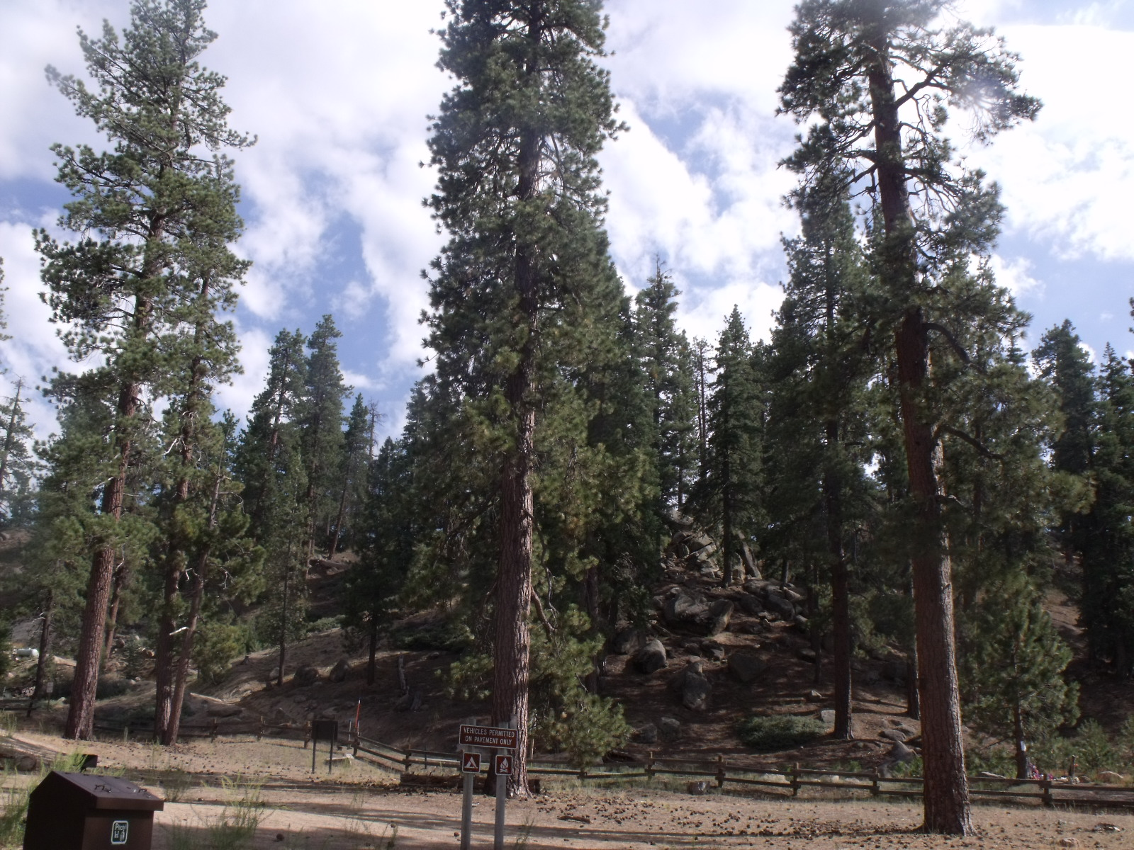 Pine trees in the San Bernardino Mountains, CA, USA.